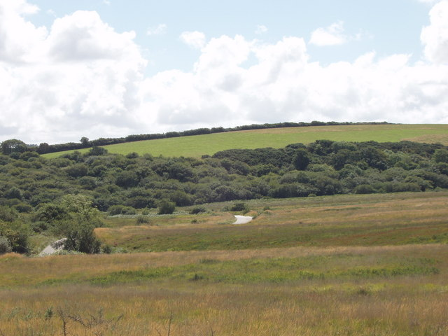 Rosenannon Downs with unfenced road. The heathland in the foreground continues up to the ridge near St Breock Downs. Beyond is the lower end of the Downs with woodland and a stream. "Extensive tract of heathland, once more widespread in this part of Cornwall. Close to the road, a mire has developed, fed by many small springs and streams. Woodland and heath support a wide range of habitats and species." - description from Cornwall Wildlife Trust